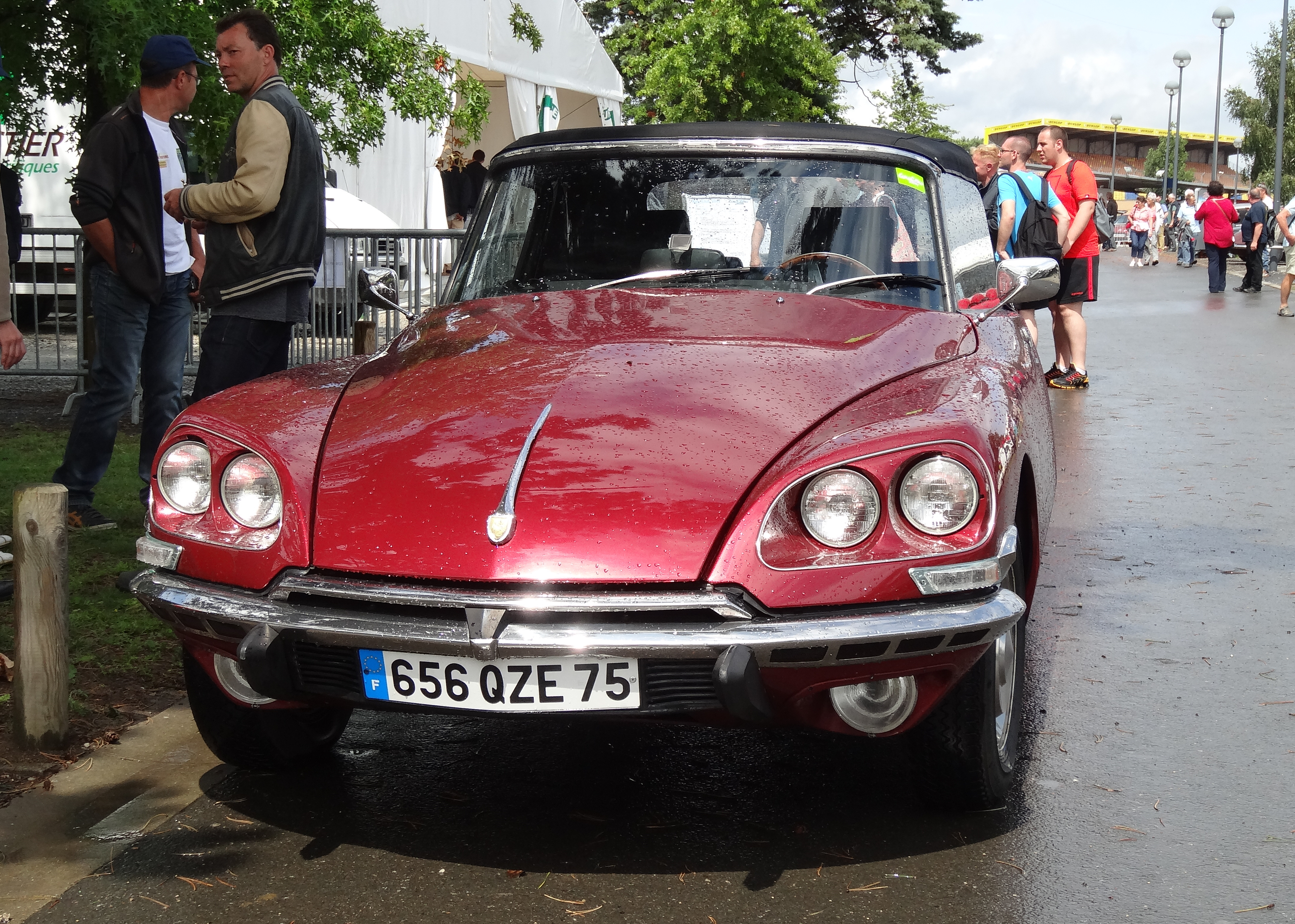 DS Cabriolet for US market